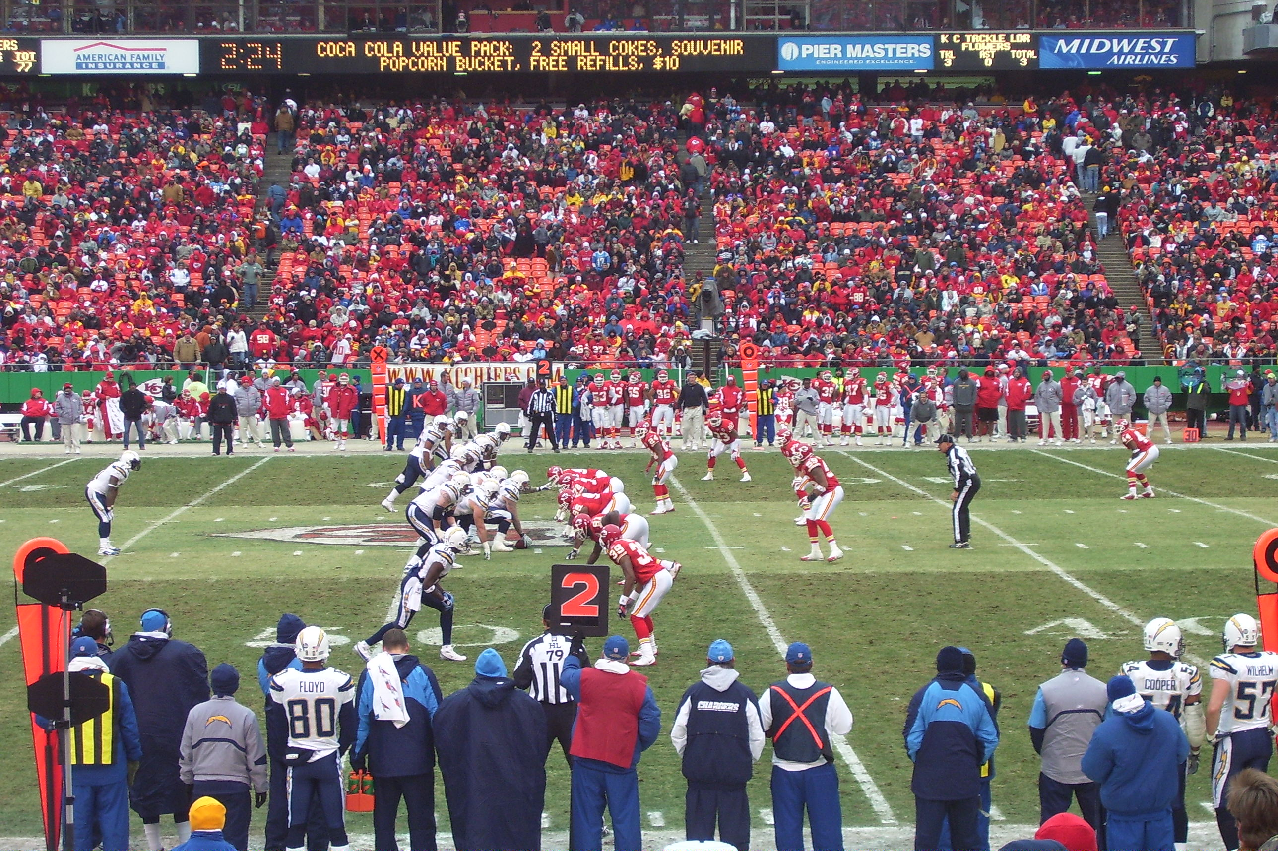 San Diego Chargers at Kansas City Chiefs, 14 December 2008 at Arrowhead Stadium.